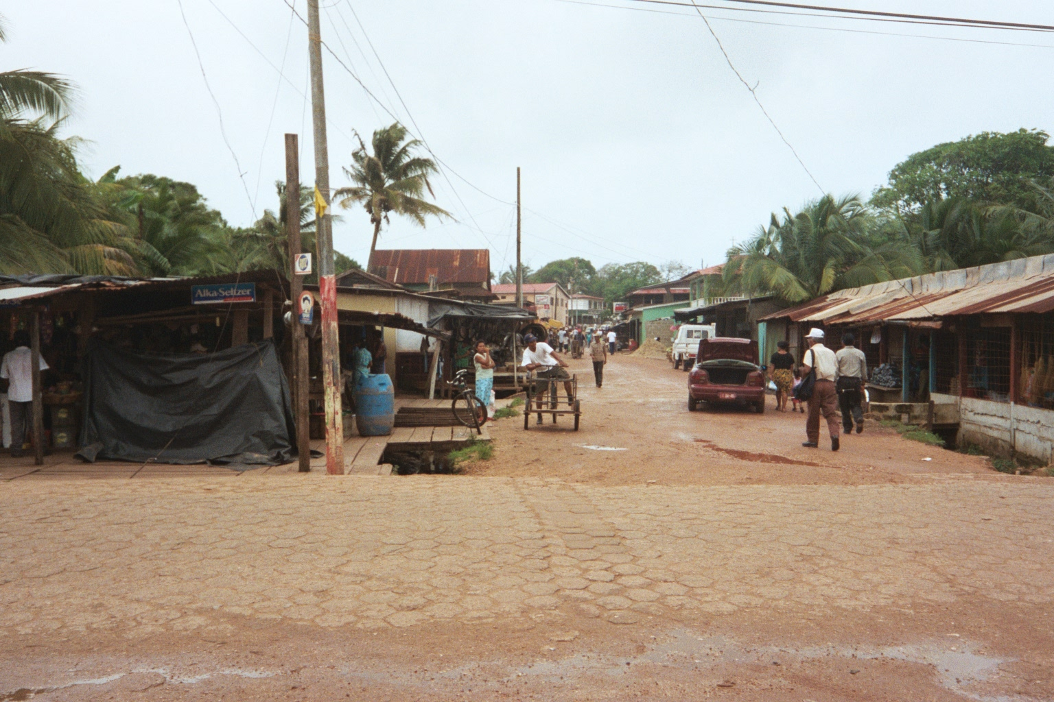 A street from Puerto Cabezas, a Nicaraguan port city on the Atlantic coast.